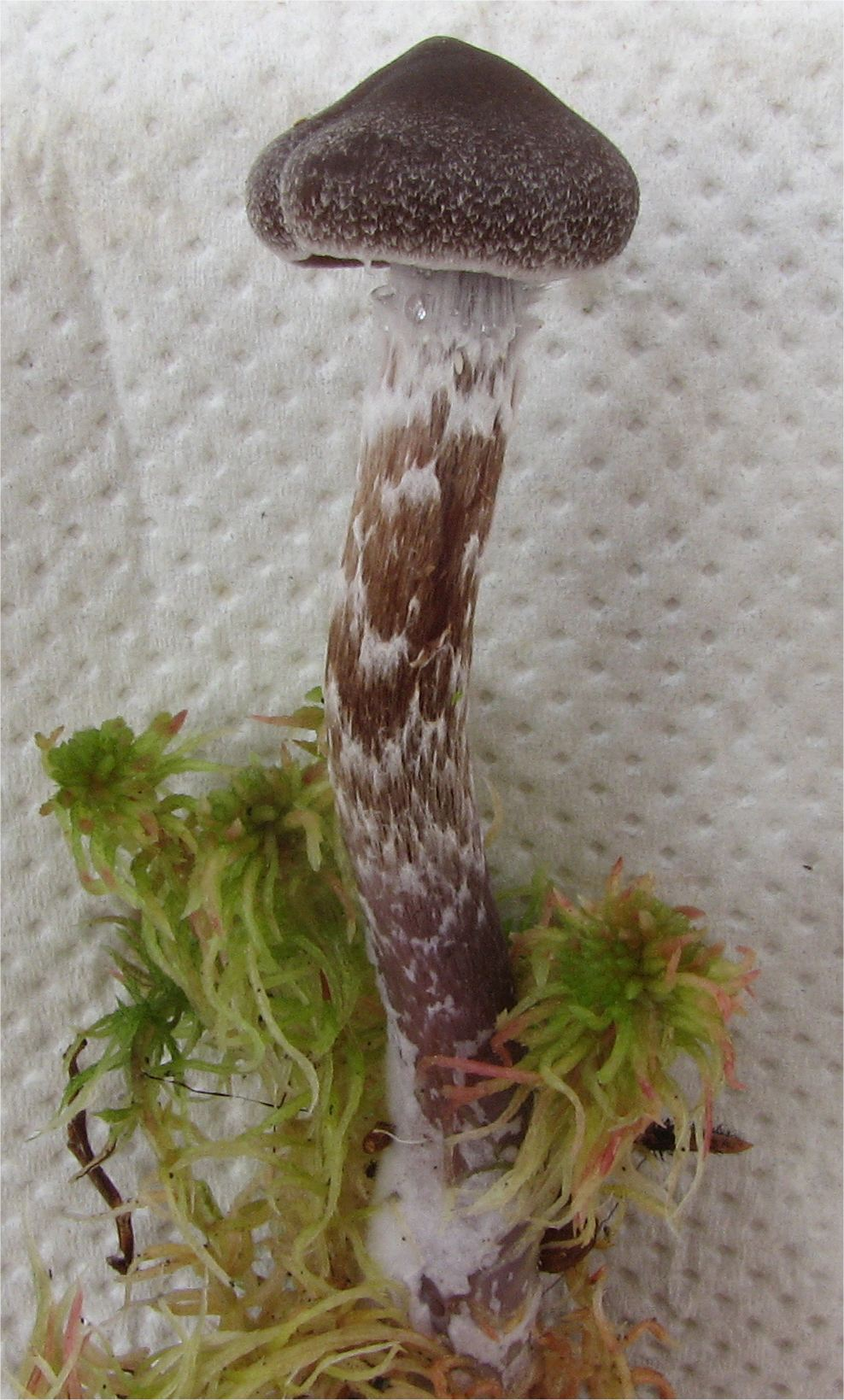 Cortinarius paleaceus (Weinm.) Fr. Image location: Hörnefors, Västerbotten, Sweden Recognized by sight: Strong smell of Geranium (cap 20 mm) For more information about this, see the observation page at Mushroom Observer.